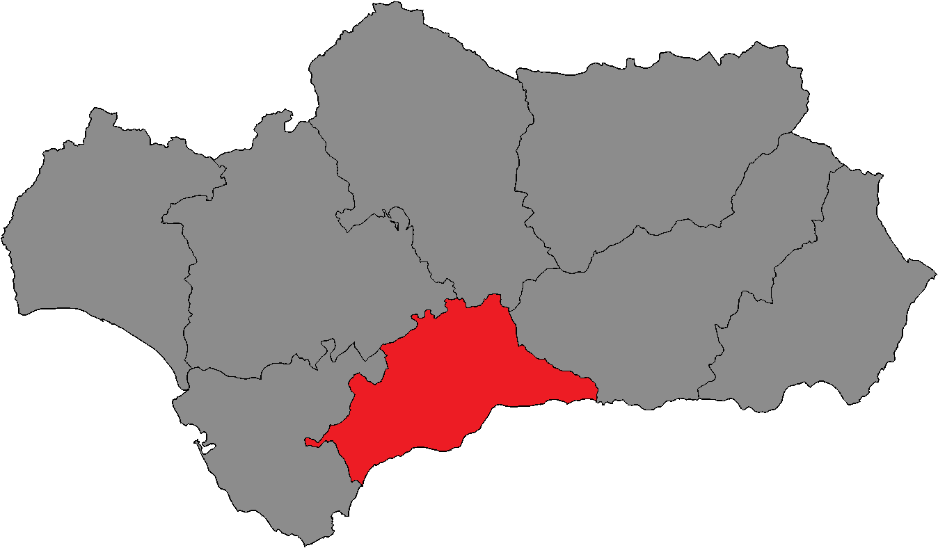 Andalusian Parliament district of Málaga.